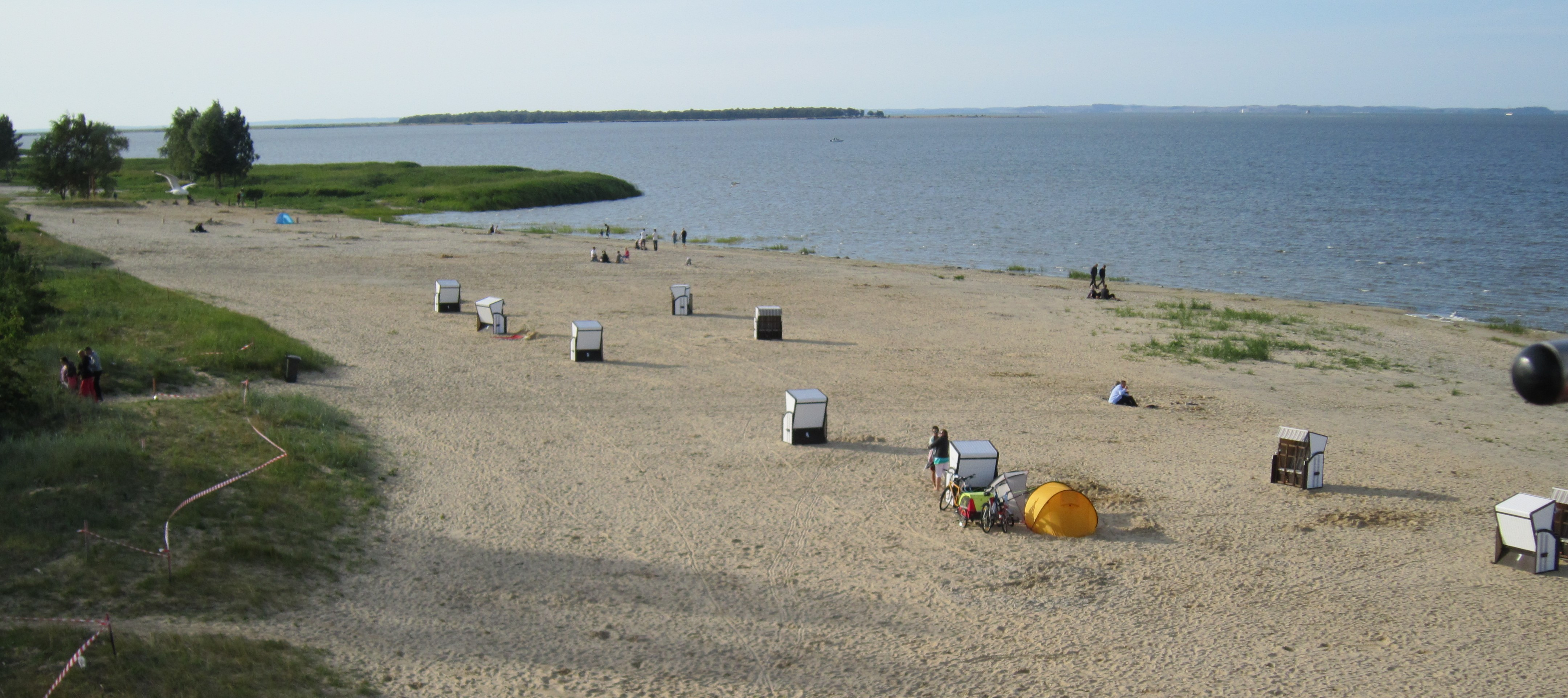 Beach of Freest at the Peenestrom